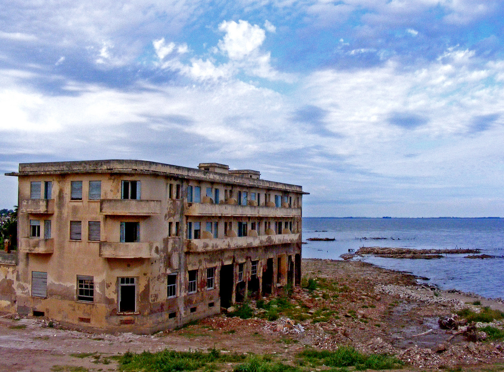 The former Gran Hotel Viena, Miramar, Córdoba Province, Argentina. The hotel was inaugurated in 1945, and closed in 1980 following a record flood three years earlier. This message reminds us that the great floods from 1870 to 1920, were absolutely septate, ignored. And, through the very dry 1920-1970 period: it was built and planned as if it were a silly climatic history; ... And the same wise and Florentino Ameghino climatologist only one locality, an avenue, a street ...